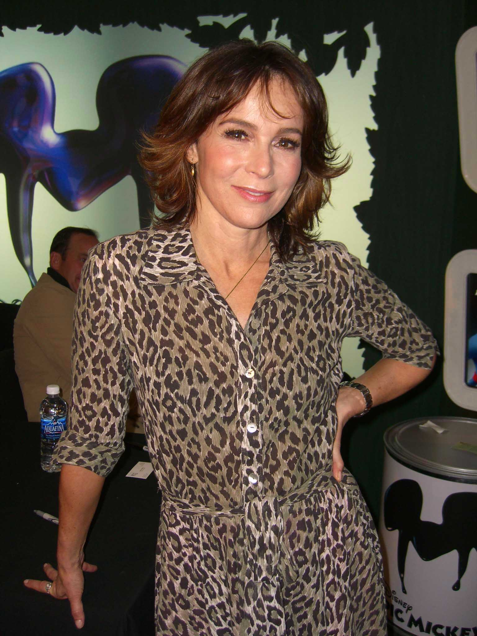 Actor and Dancing with the Stars personality Jennifer Grey, at the November 30, 2010 launch party for the Disney video game Epic Mickey at the Times Square Disney Store in Manhattan. Photographed by Luigi Novi. This photo is not in the public domain. It may, however, be used, modified and published for any purpose, only if an easily visible credit to the photographer is placed near the photo in each instance in which it is used. (See licensing information below.) Publication of this photo without this proper attribution constitutes copyright infringement. For more information on my photos, you can contact me here.